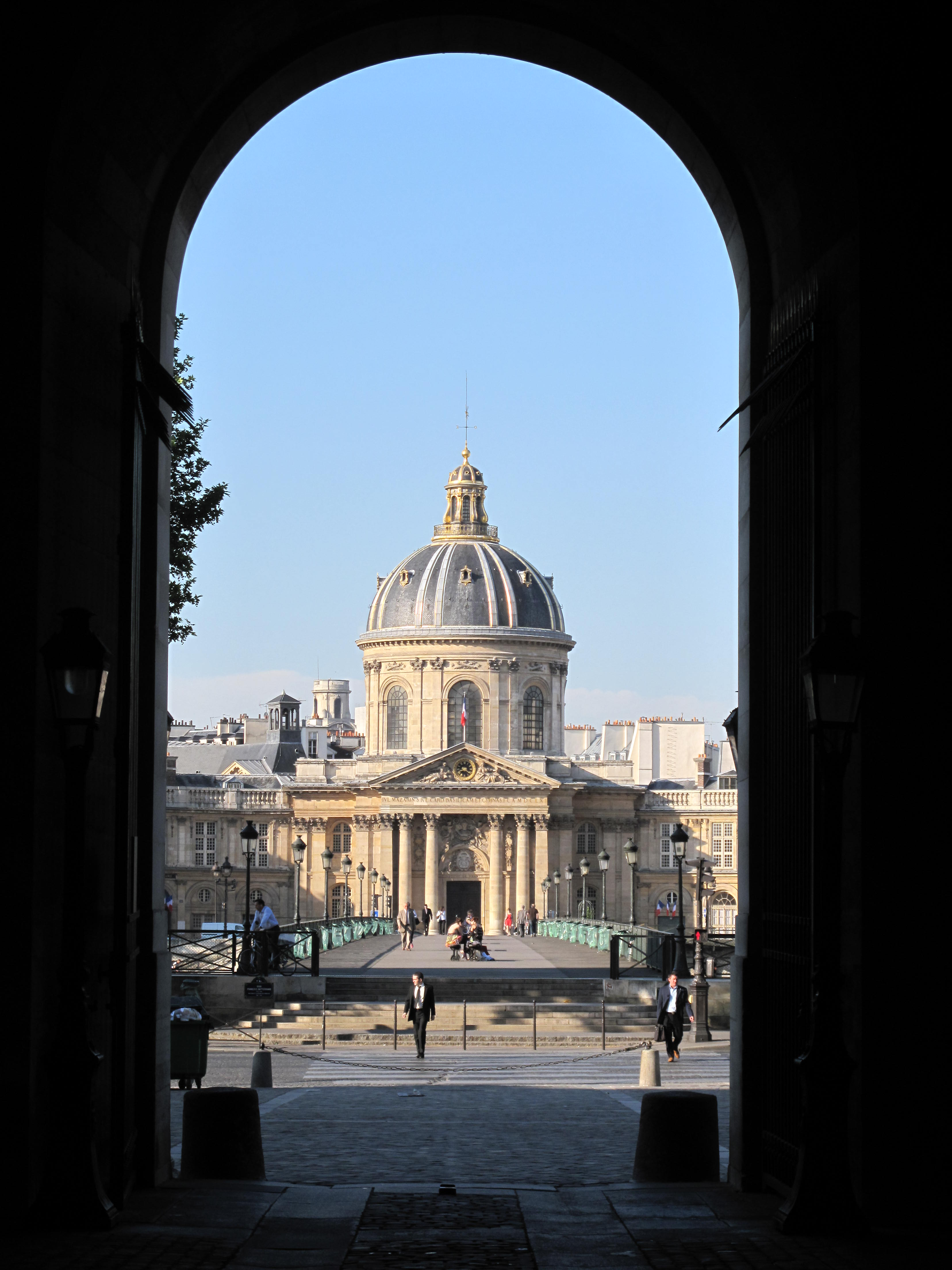 Dome of the Institut de France, from Cour Carrée du Louvre, Paris